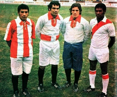 Hector Chumpitaz, Orlando La Torre, and Ramon Mifflin pose for a picture that highlights the evolution of the Peru national football team's kit (uniform)